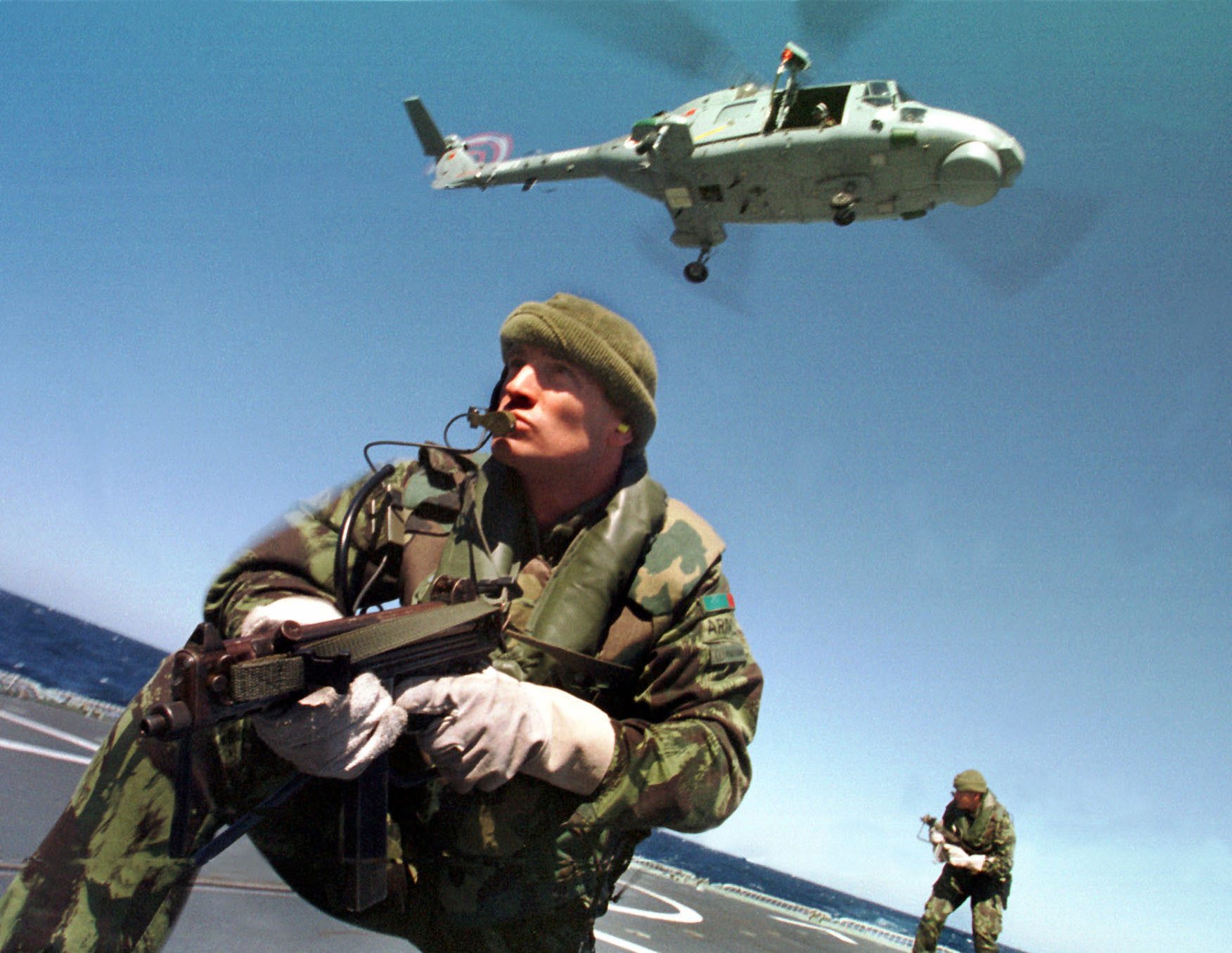 A Portuguese Marine squad drops back aboard the Vasco de Gama Class Frigate, NRP VASCO DE GAMA (F 330), after simulating a force boarding aboard the German, Bremen Class Frigate, FGS AUGSBURG (F 213) (Not shown), during a capability enhancement training (CET) exercise on March 12th, 1998. The VASCO DE GAMA, along with other NATO Navy ships (Not shown) are operating off the coast of Portugal during exercise Strong Resolve '98, Crisis South. The helicopter hovering above is a Portuguese Lynx Mk-95.